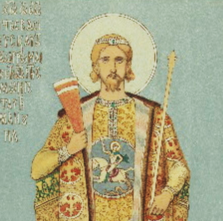 Emperor Manuel III Megas Komnenos of Trebizond